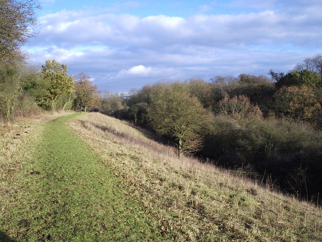 Happy Valley near Oxford. This is one of several deepcut valleys running up to the Chilswell ridge. It has long been a favourite walk for local people and is now maintained as a nature reserve and leisure resource. Even with a new golfcourse nearby it is still an excellent wildlife refuge and place with a peculiar charm.